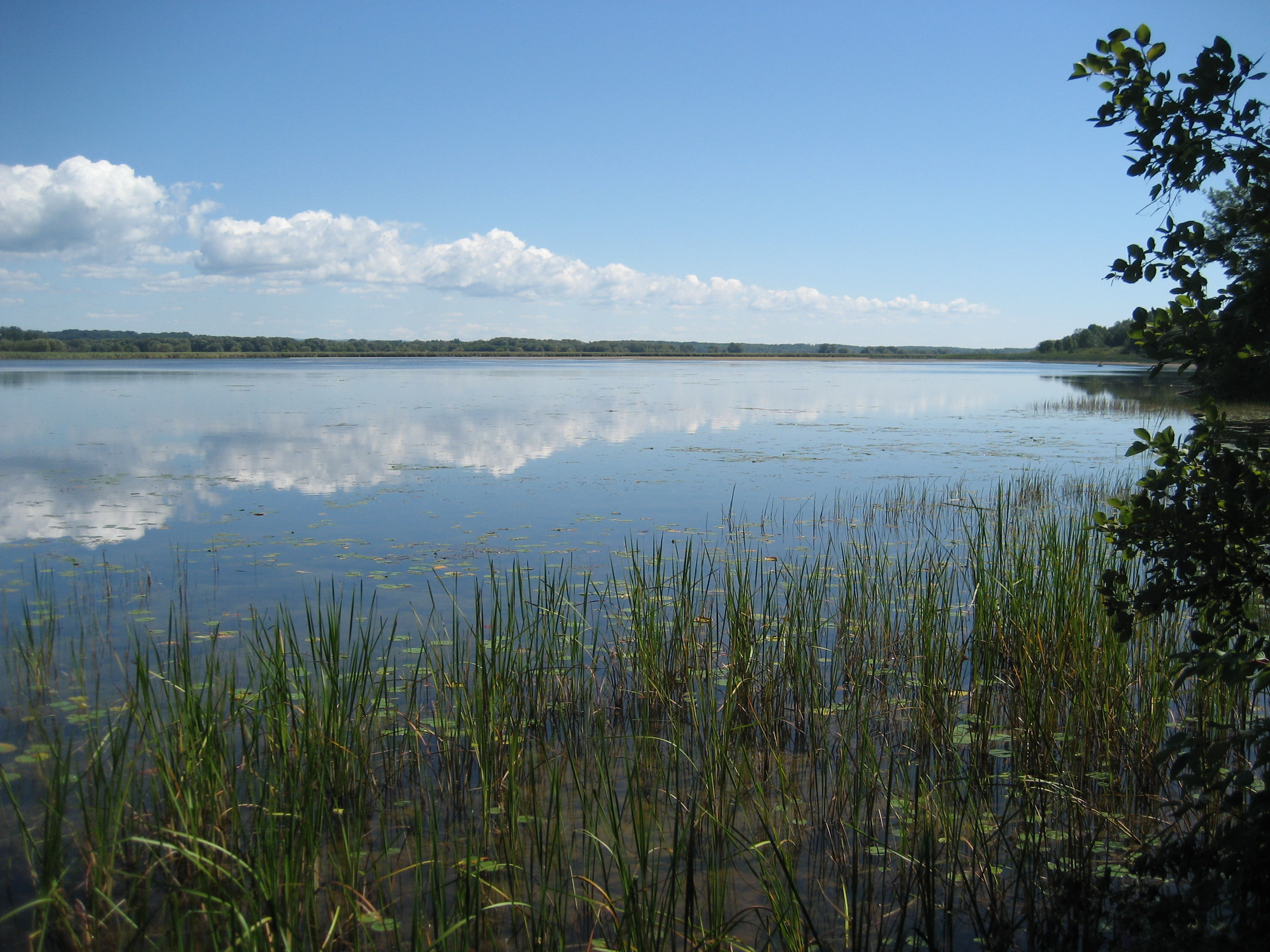 Lakeview Pond in Lakeview Wildlife Management Area, eastern shore of Lake Ontario, New York State. Foreground aquatic plants are mostly Typha angustifolia. The photograph is facing south southeast. The viewpoint is at the terminus of the second, wooden dune walkover reached by walking south along the beach from Southwick Beach State Park.